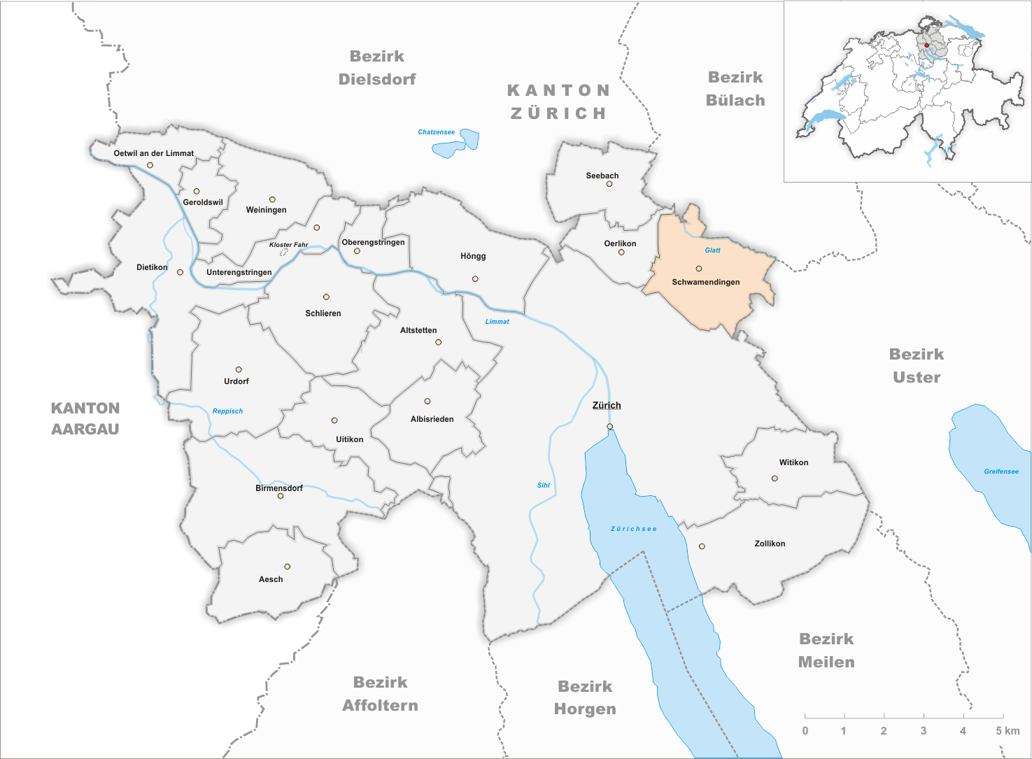 Municipality Schwamendingen